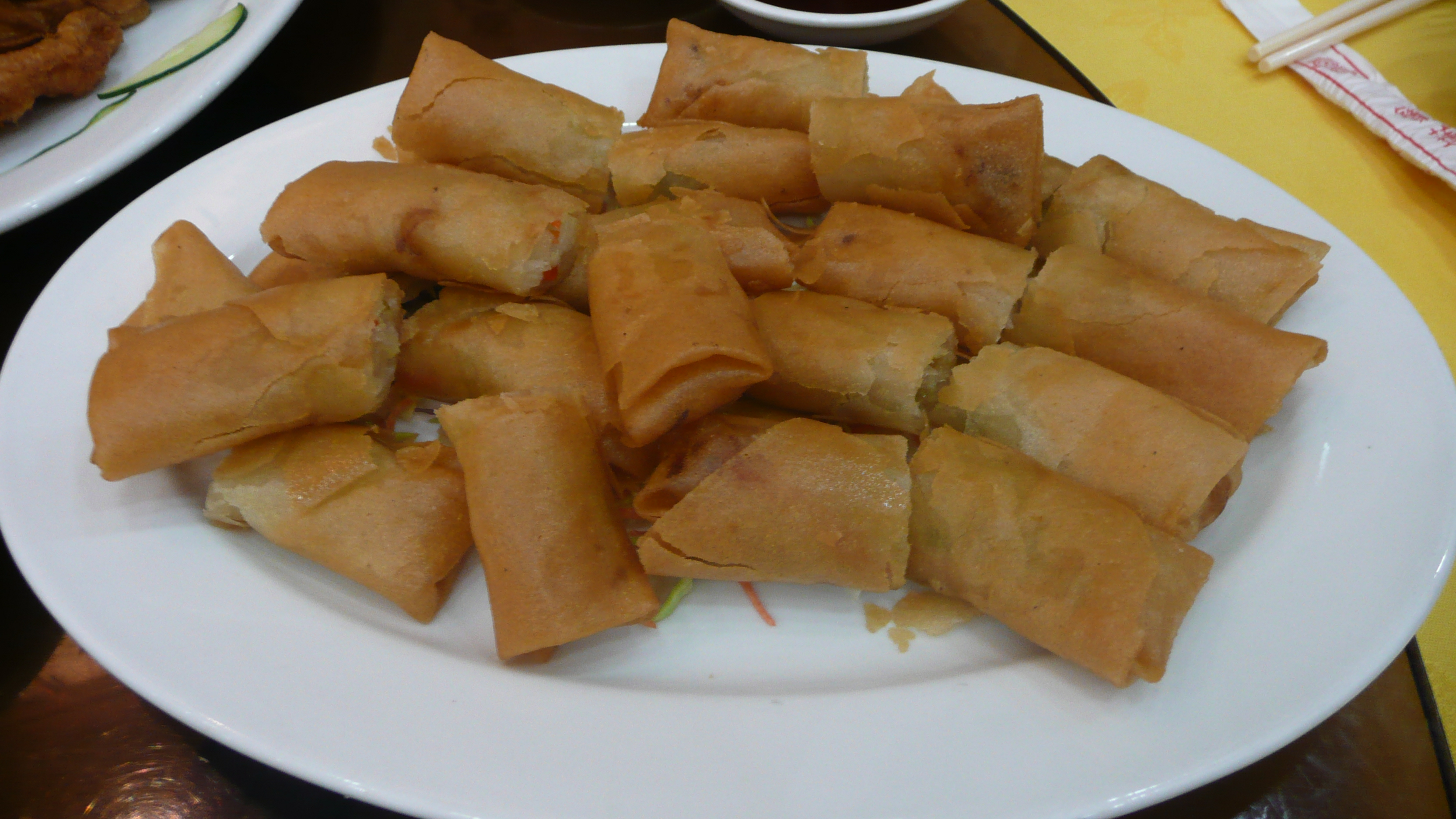 Cuisine of China, Hongkong